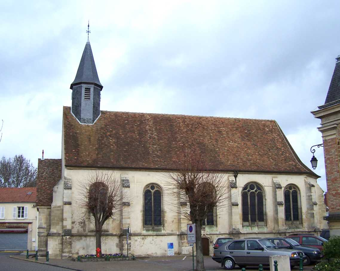 Church of Maurecourt (Yvelines, France)